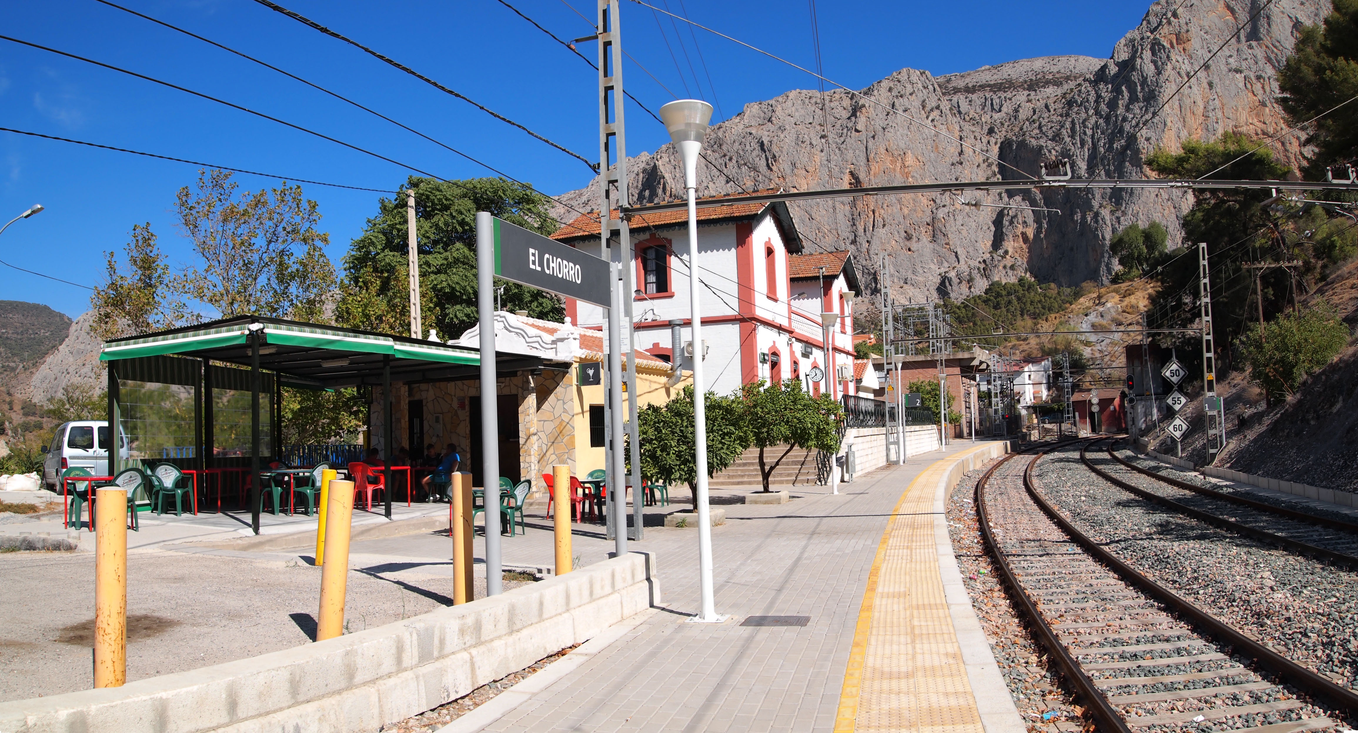 Train station in El Chorro.